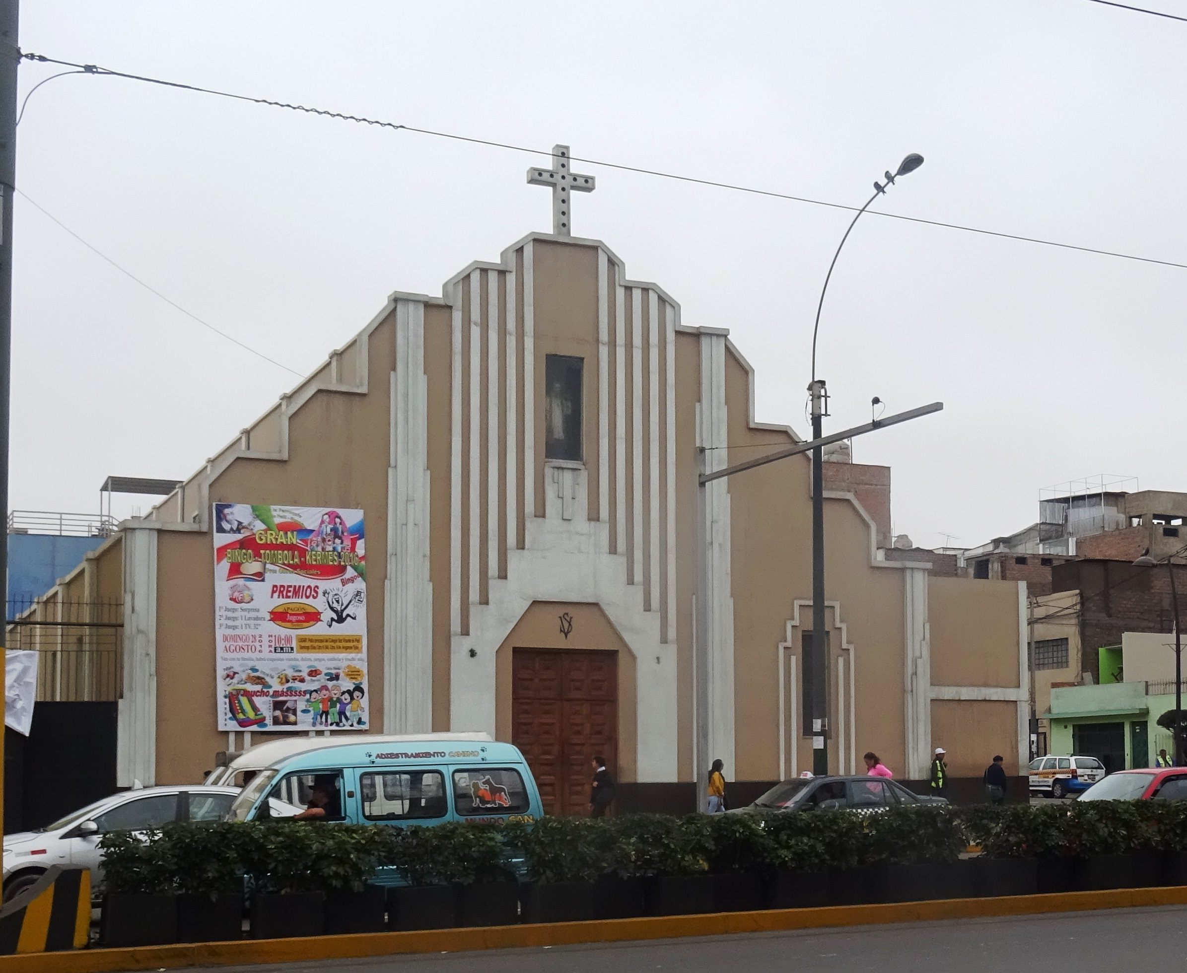 Saint Vincent de Paul church in Surquillo District, Lima-Peru.